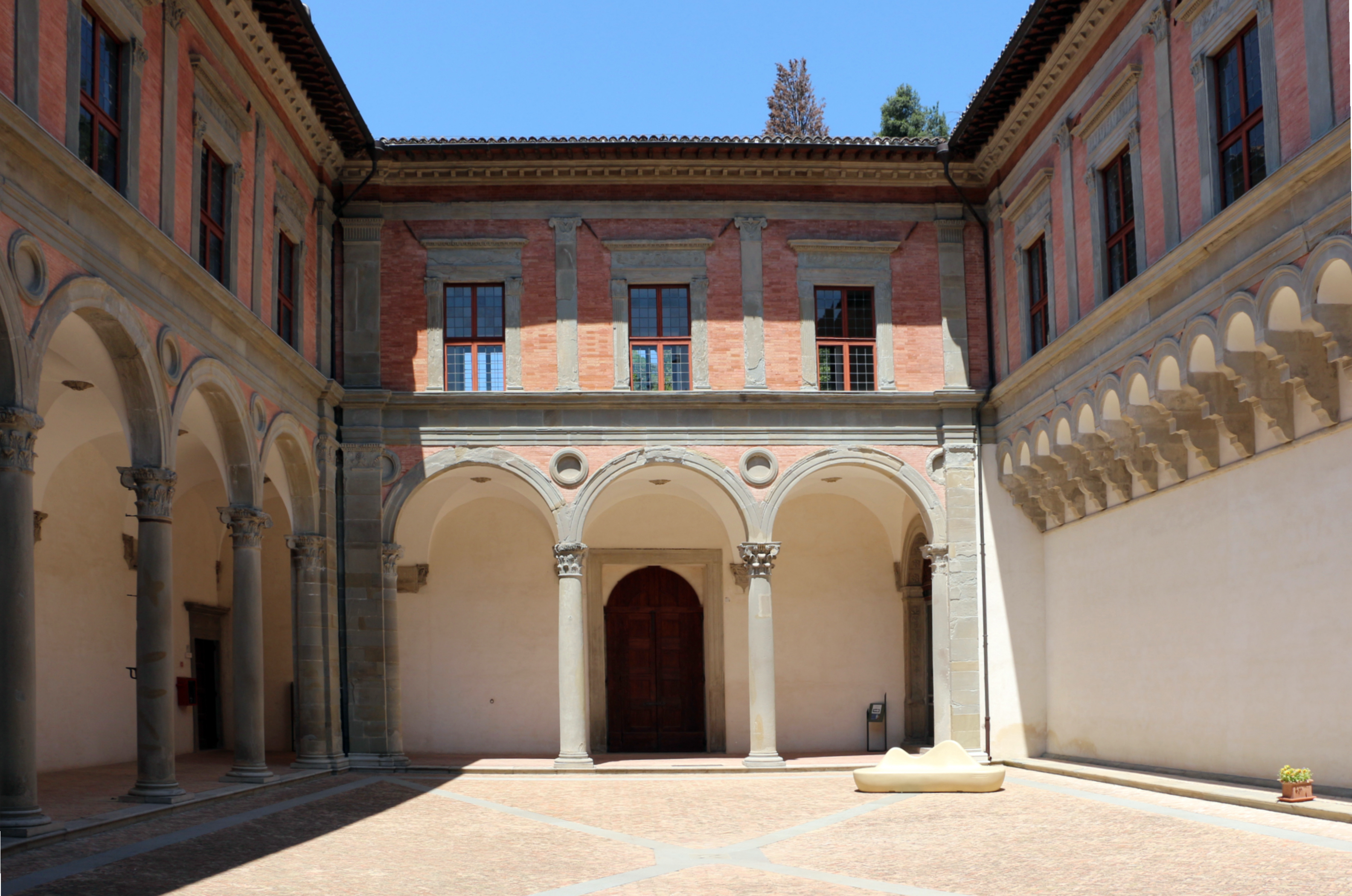 Palazzo Ducale (Gubbio)